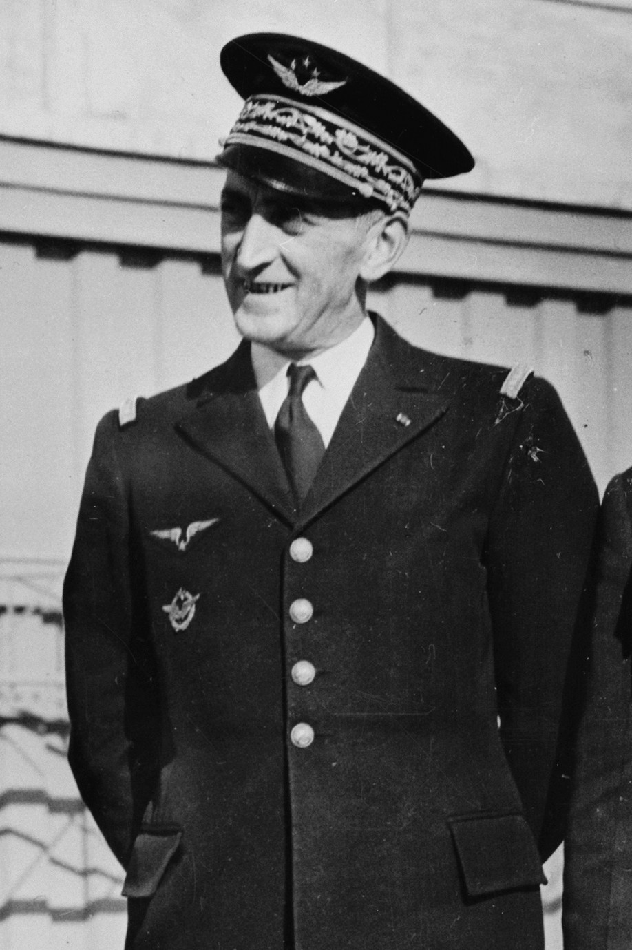 Cropped to show General Bergeret.